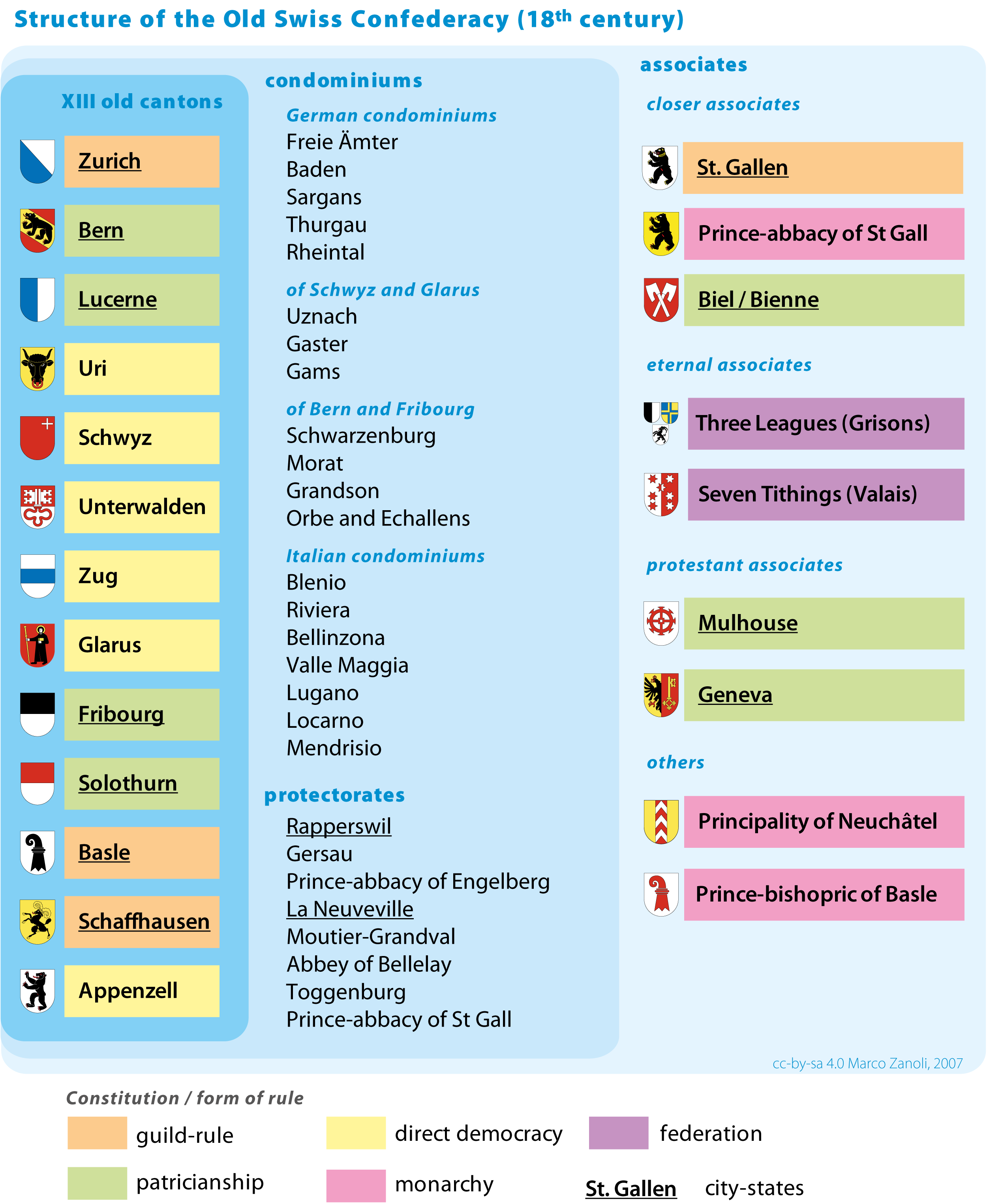 Political diagram of the structure of the Old Swiss Confederacy during the 18th century.